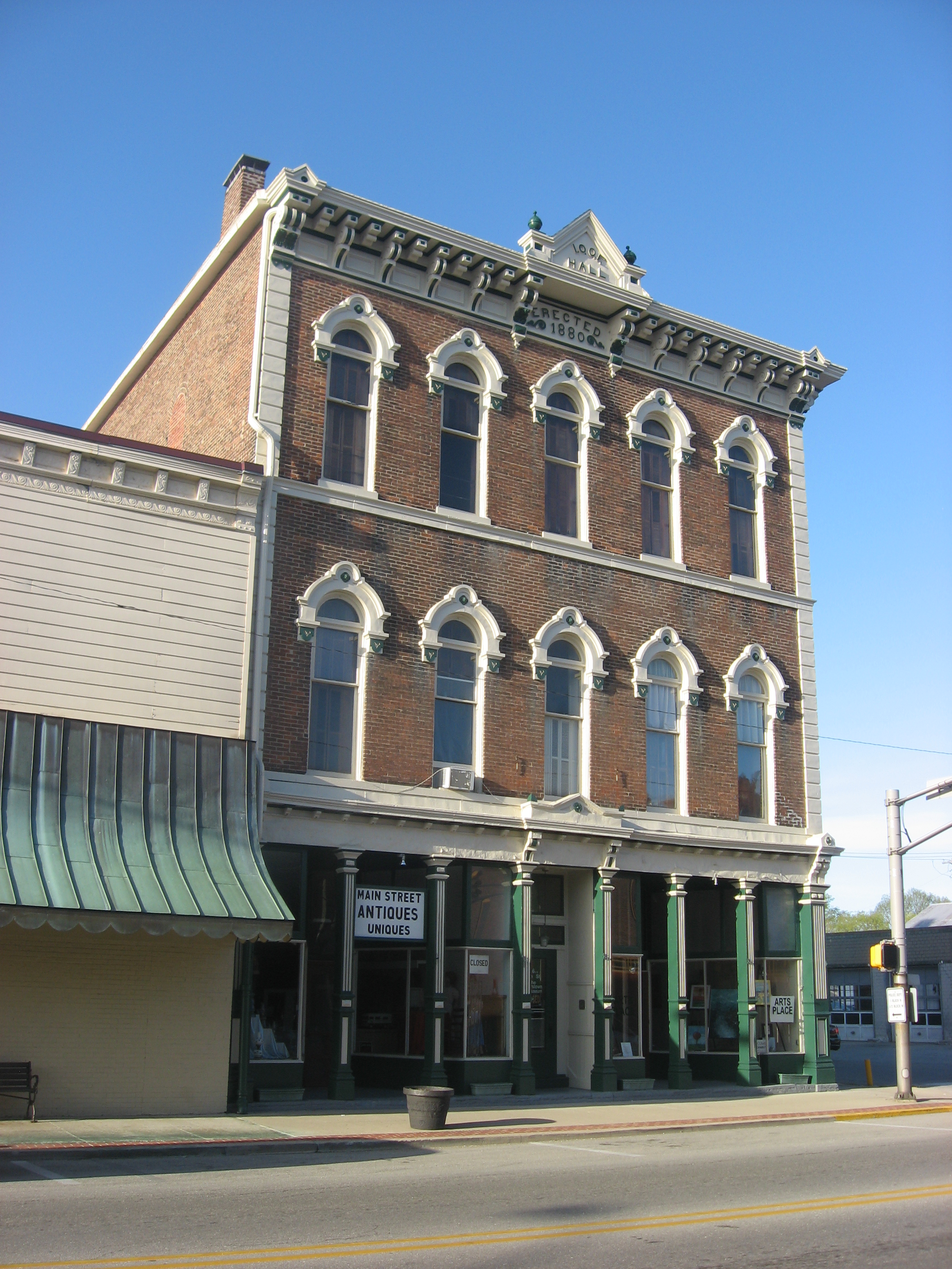 Front of the Hagerstown I.O.O.F. Hall, located on the northwestern corner of the junction of Main (State Road 38) and Perry Streets in Hagerstown, Indiana, United States. Built in 1880, it is listed on the National Register of Historic Places.